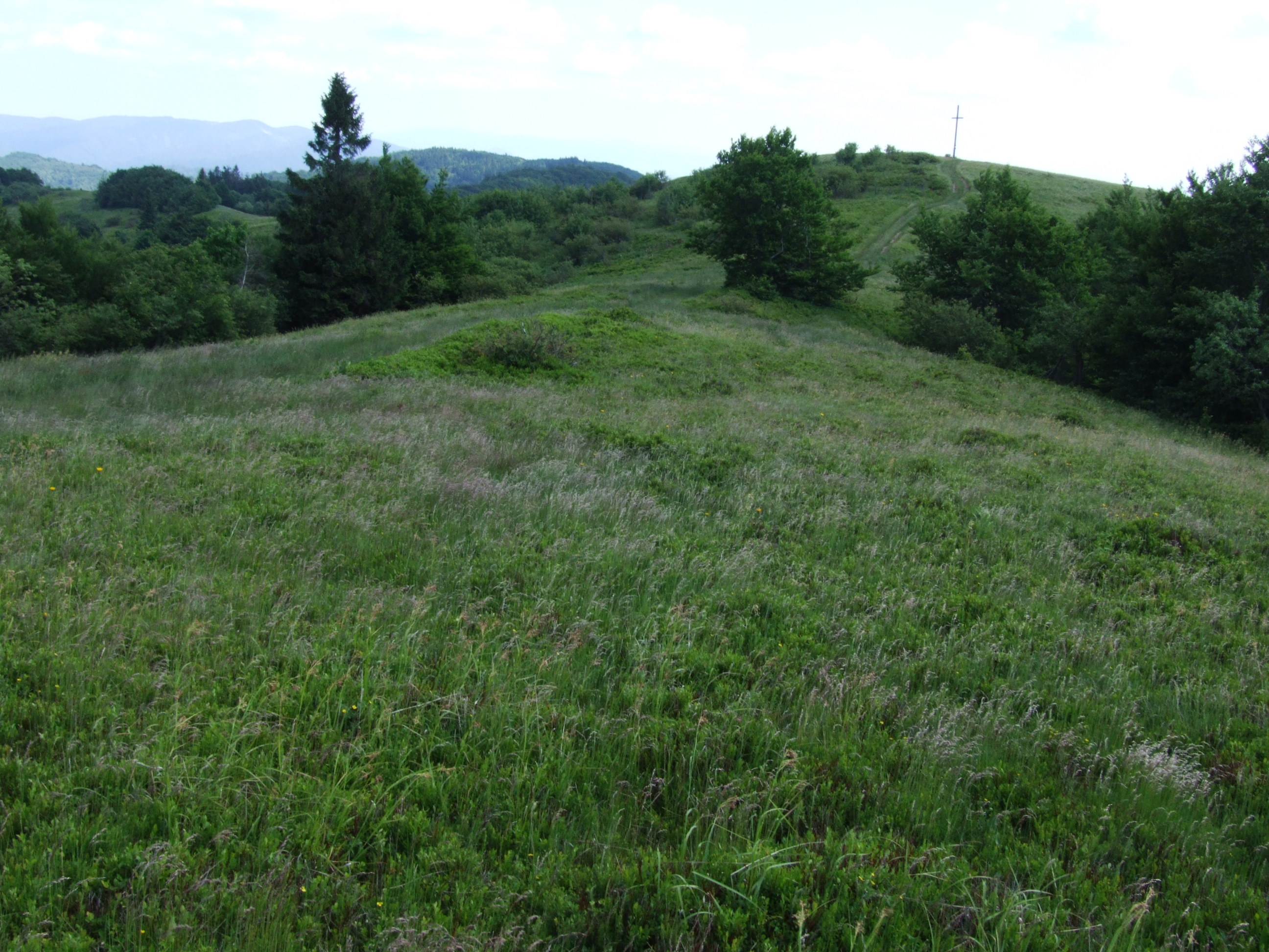 Lazy (Čergov)